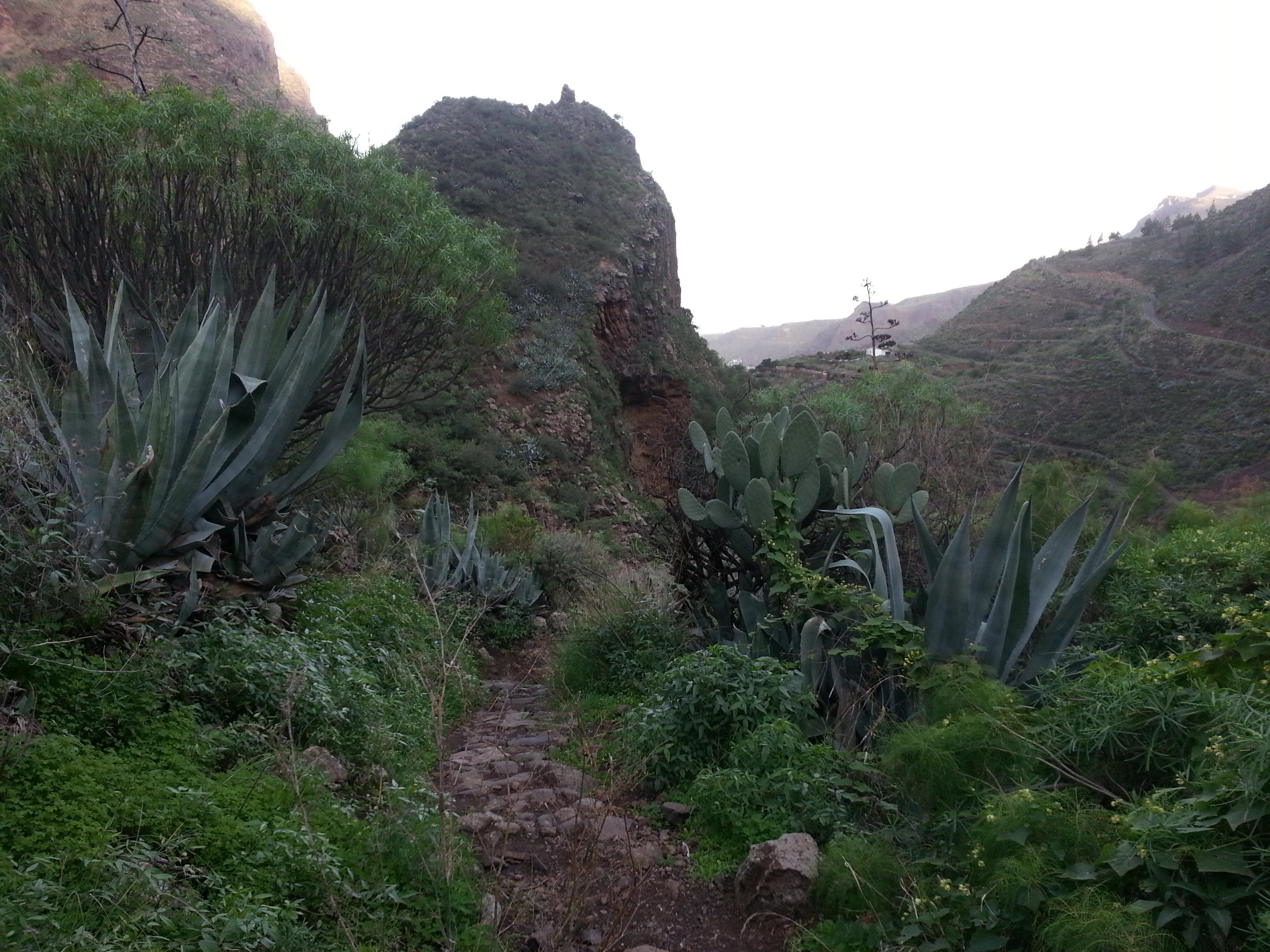 After sunrise in the Barranco de Agaete